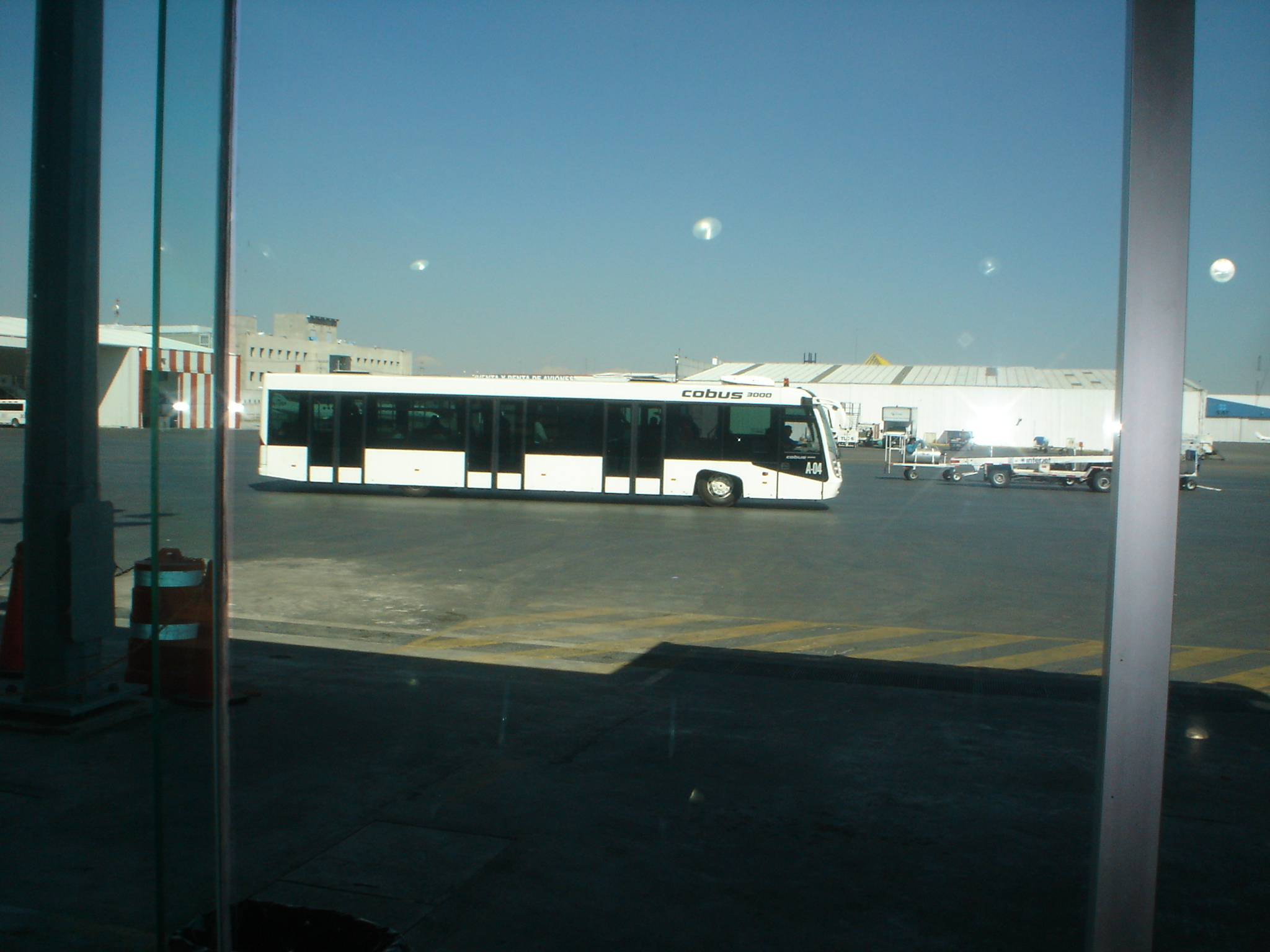 Cobus 3000 bus in Toluca Airport.